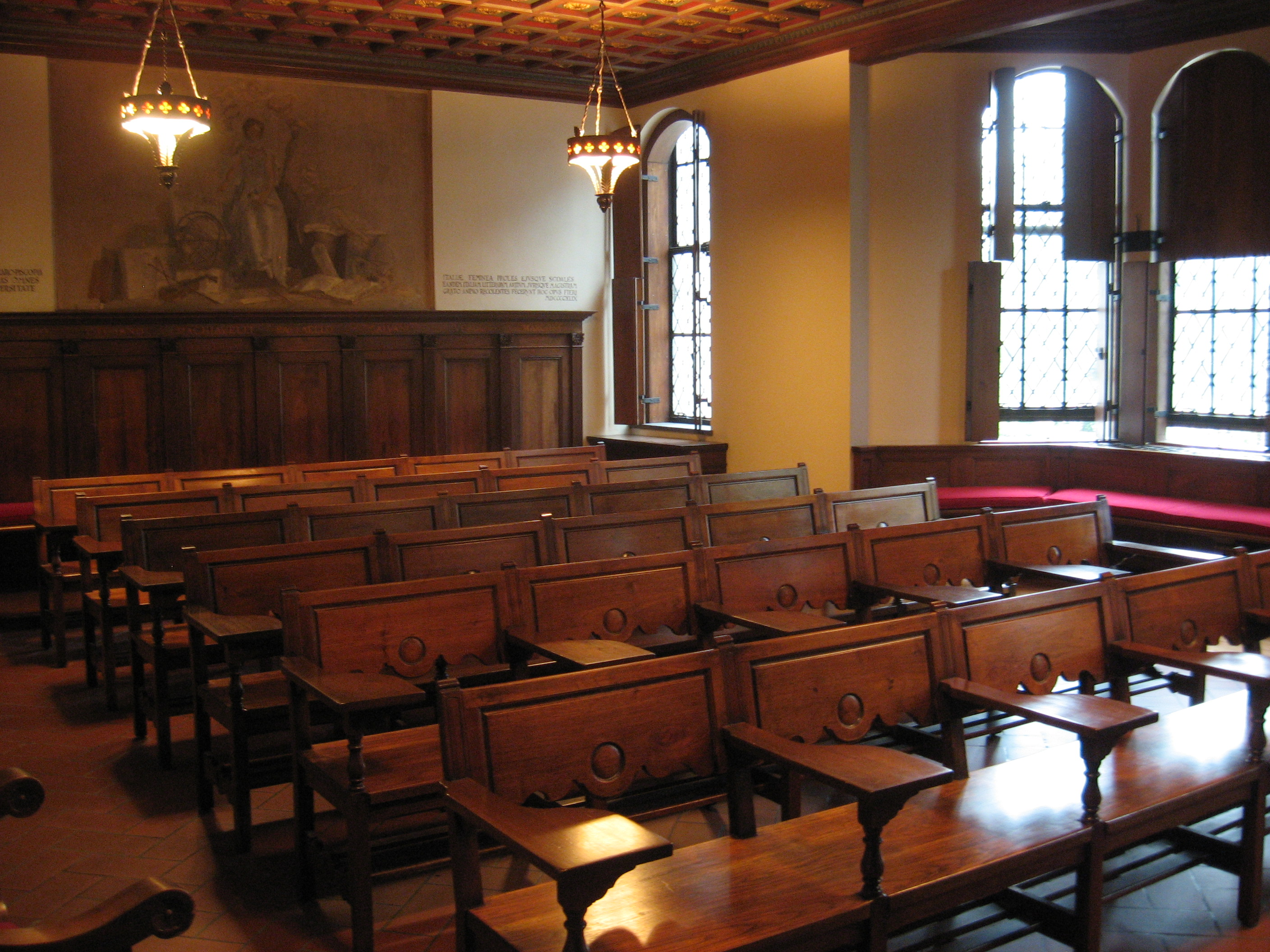 Italian Nationality Room of the Nationality Rooms at the University of Pittsburgh's Cathedral of Learning